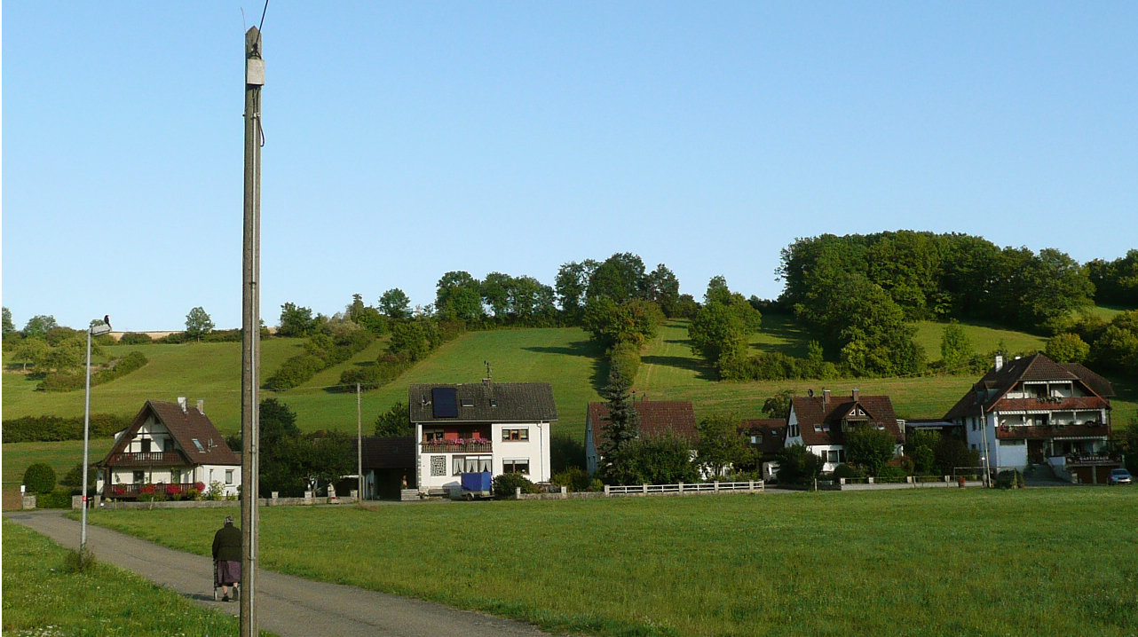 Landscape at the limit between Bavaria and Baden-Wurttemberg, at Klingen